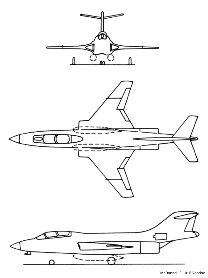 Line drawings for the U.S. Air Force McDonnell F-101B Voodoo interceptor.